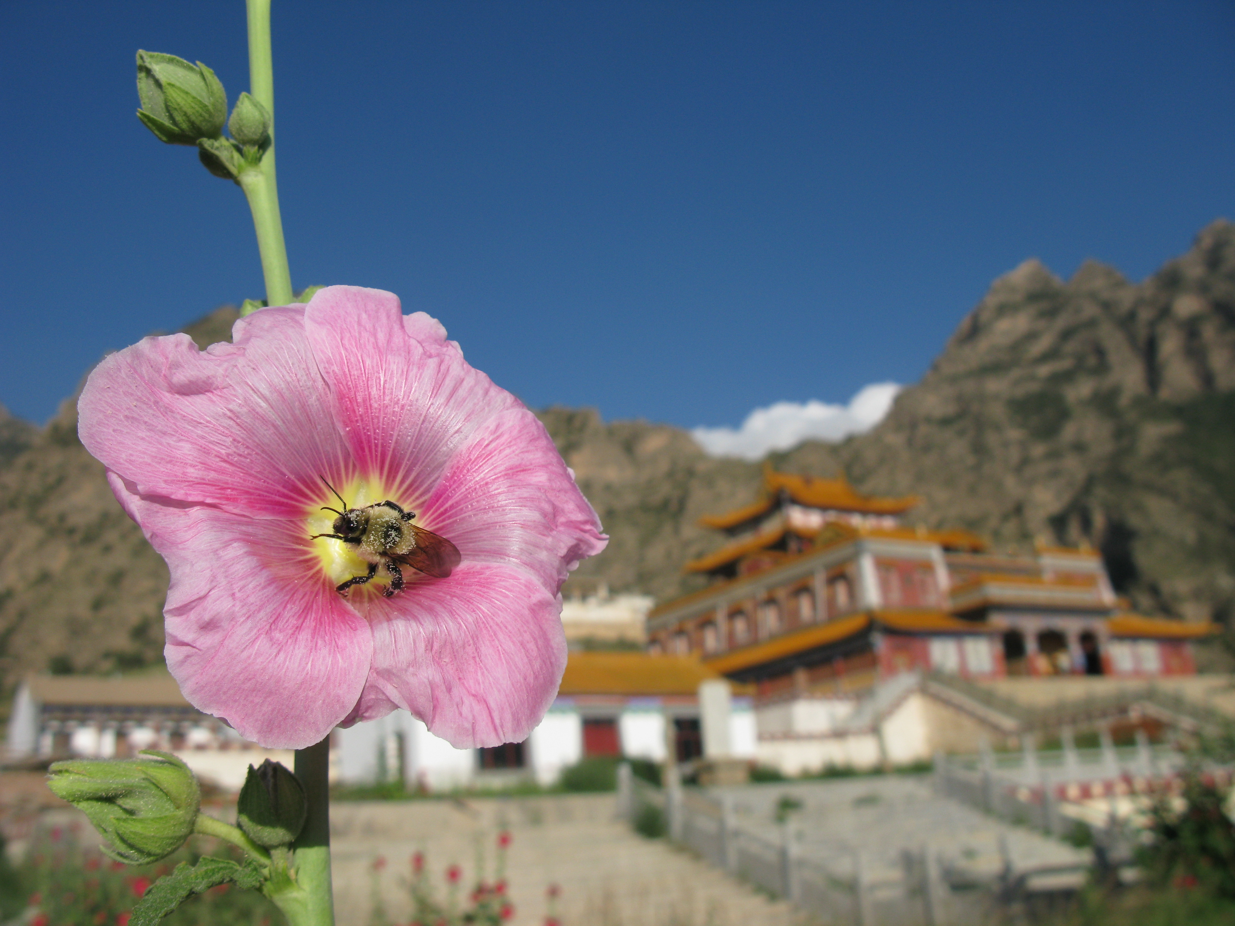 Thanks, little bee for this snapshot. Background is the Guangzong Temple, a Tibetan Buddhist temple in Alxa Left Banner, Alxa League, Inner Mongolia, China.